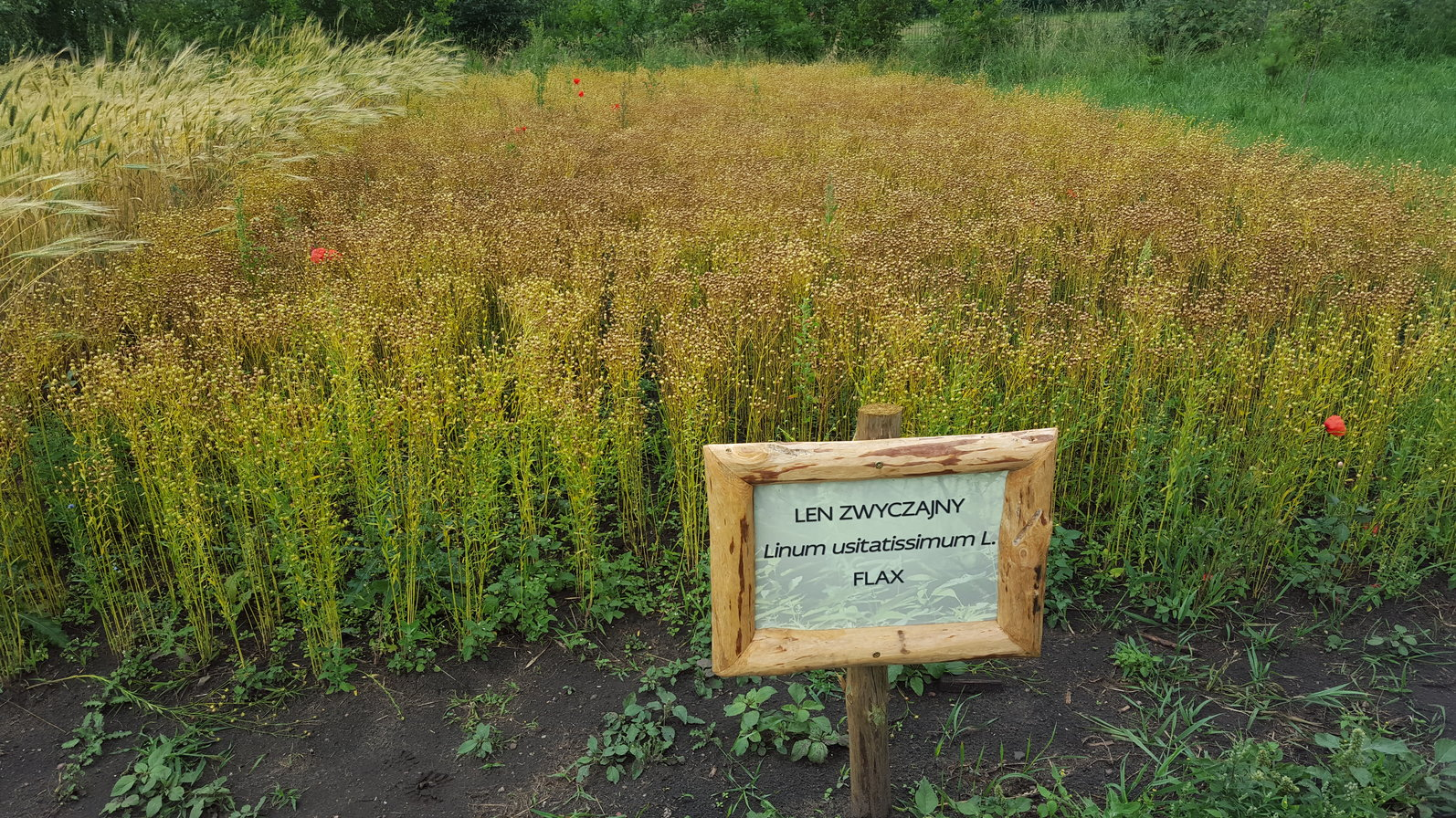 Flax (Linum usitassimum) exhibition field in Biskupin Archaeological Museum, Poland